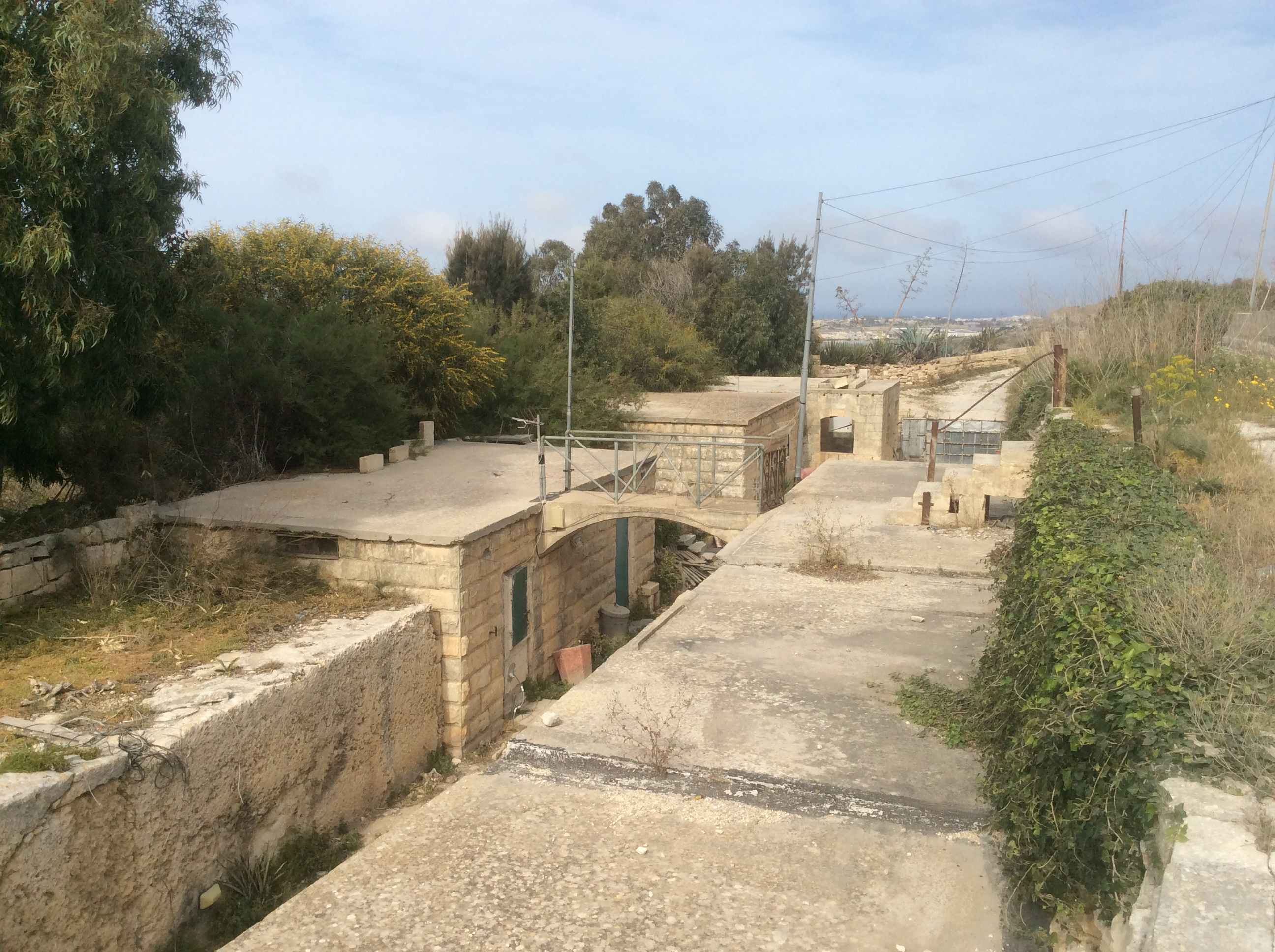 Tat-targa baterija